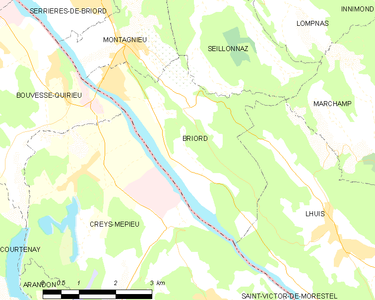 Map of French commune: Briord Map commune FR insee code 01064.png